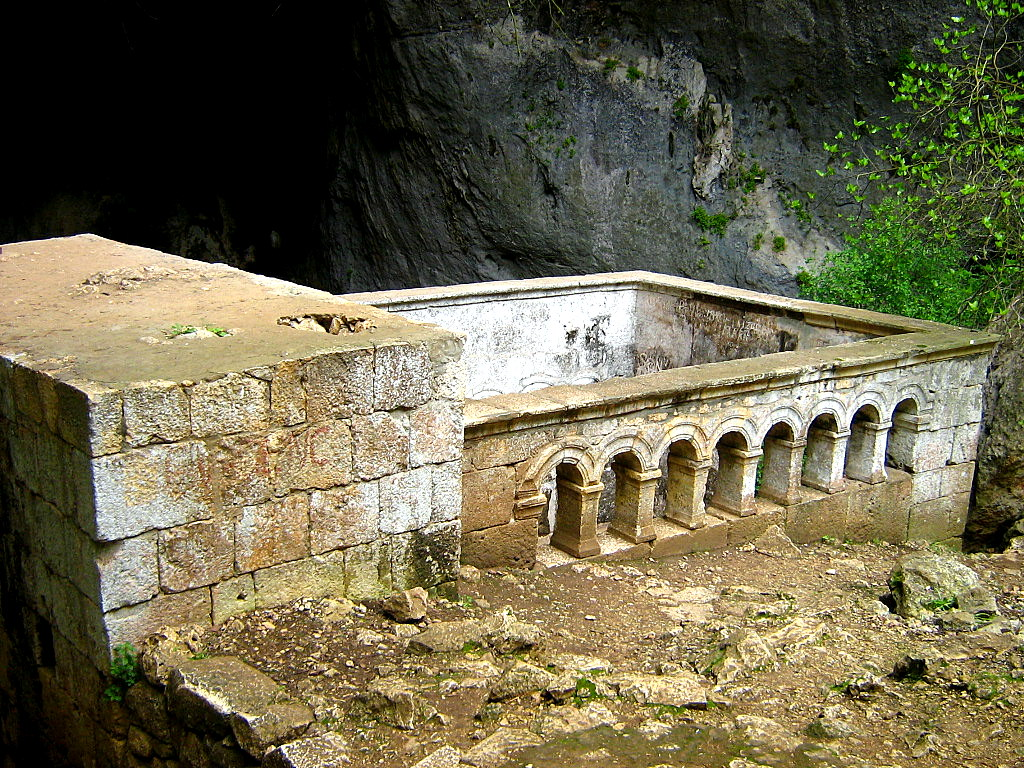 Church built by Paul in honour of Mary (Cennet ve cehennem, Silifke, Mersin)